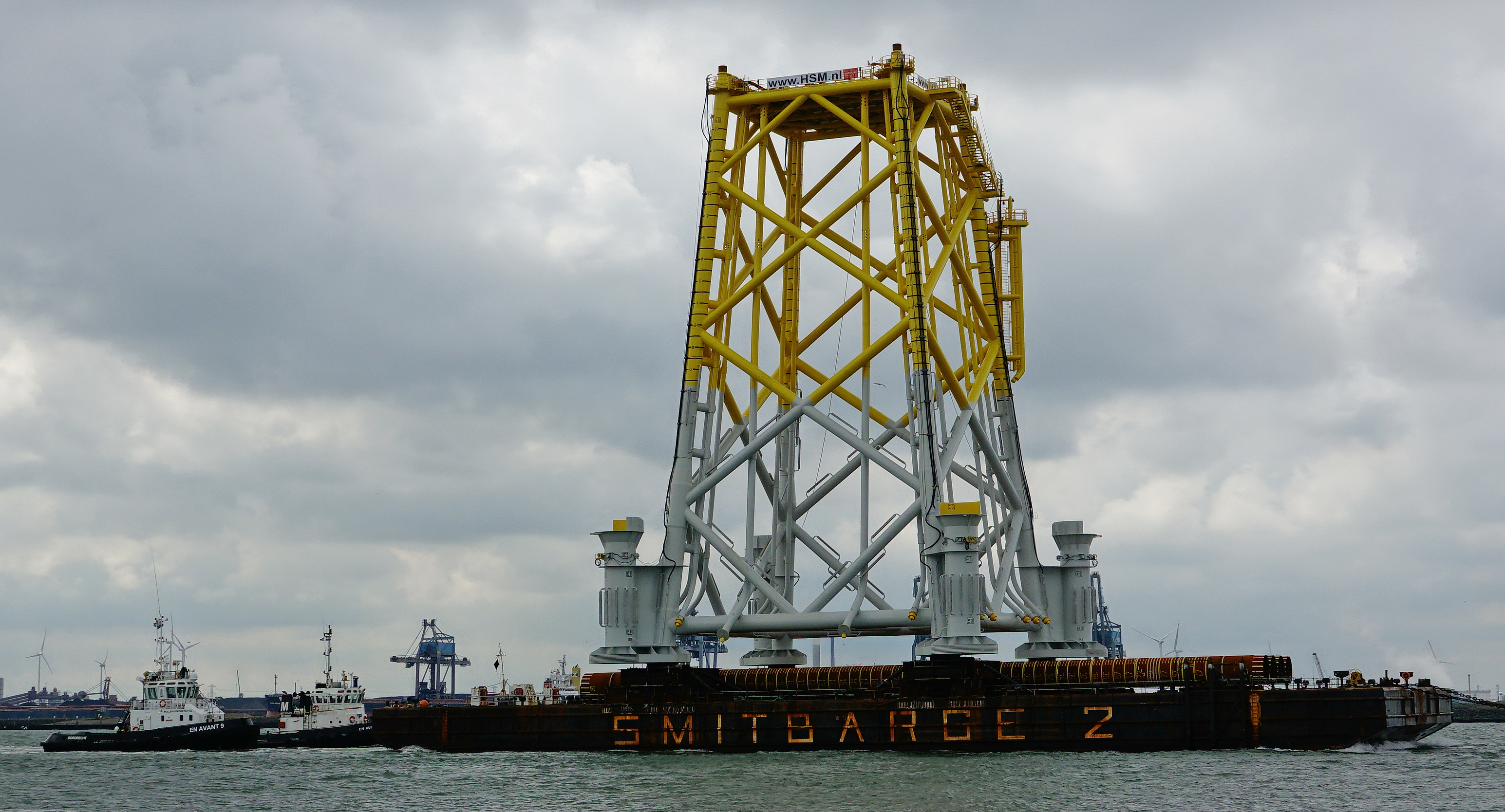 Transport of the jacket foundation for the Borkum Riffgrund 2 offshore substation